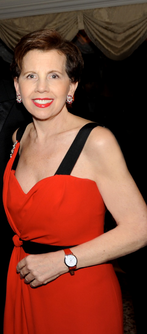 American philanthropist, Adrienne Arsht, at a benefit function in Miami, FL